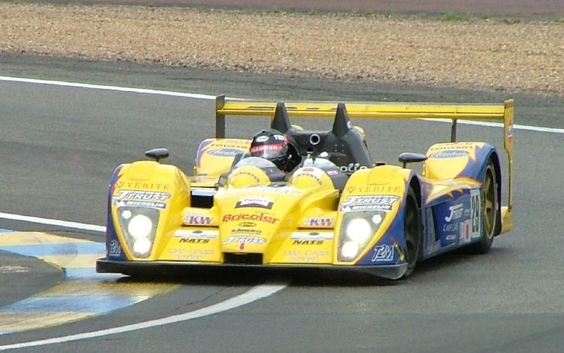 T2M Motorsport's Dome S101.5-Mader at the 2007 24 Hours of Le Mans